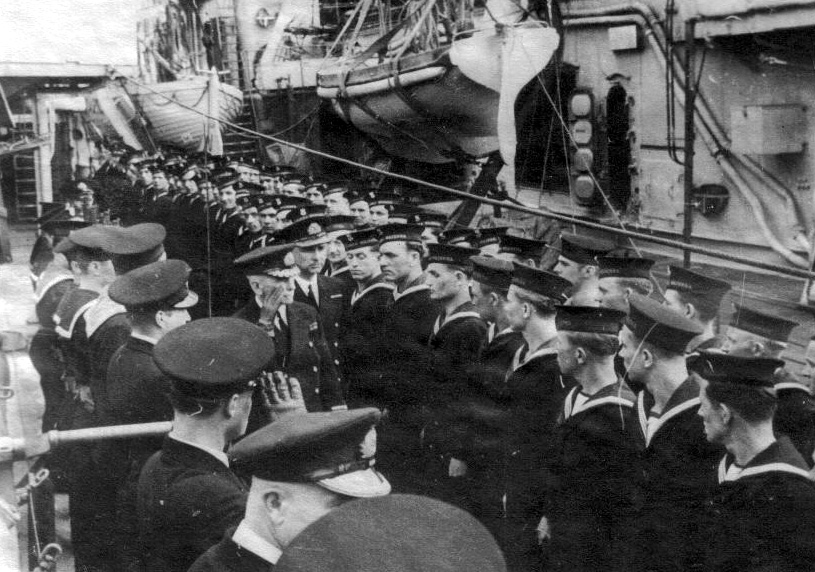 Polish destroyer ORP Piorun (British N class) returns to Plymouth after the heroic struggle against German battleship Bismarck.